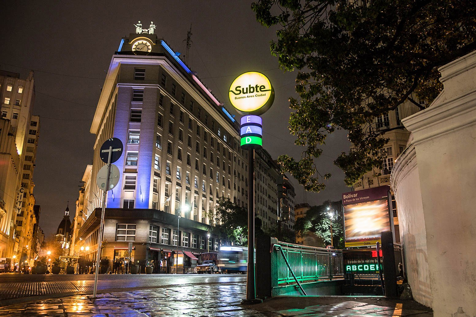 Bolivar station of the Buenos Aires underground at night.